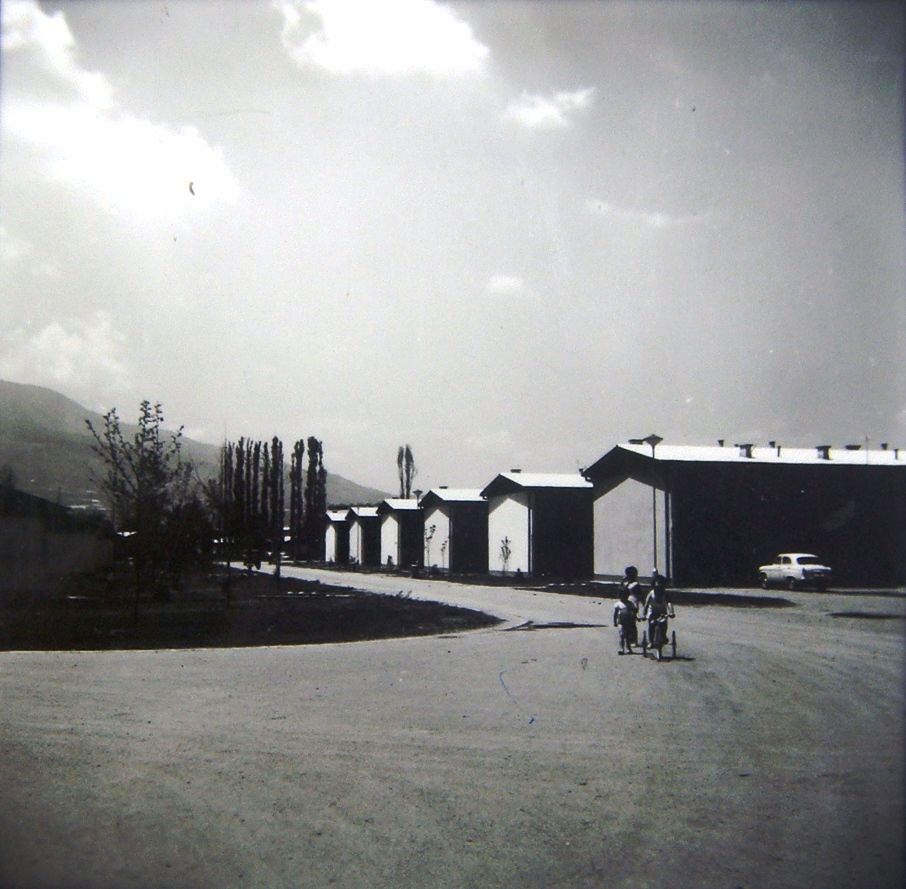 1963 Skopje earthquake: Apartments in the settlement Aerodrom, 1964 This media file is produced by Wikipedian in Residence in Category:Wikipedian in Residence at DARM in 2016.